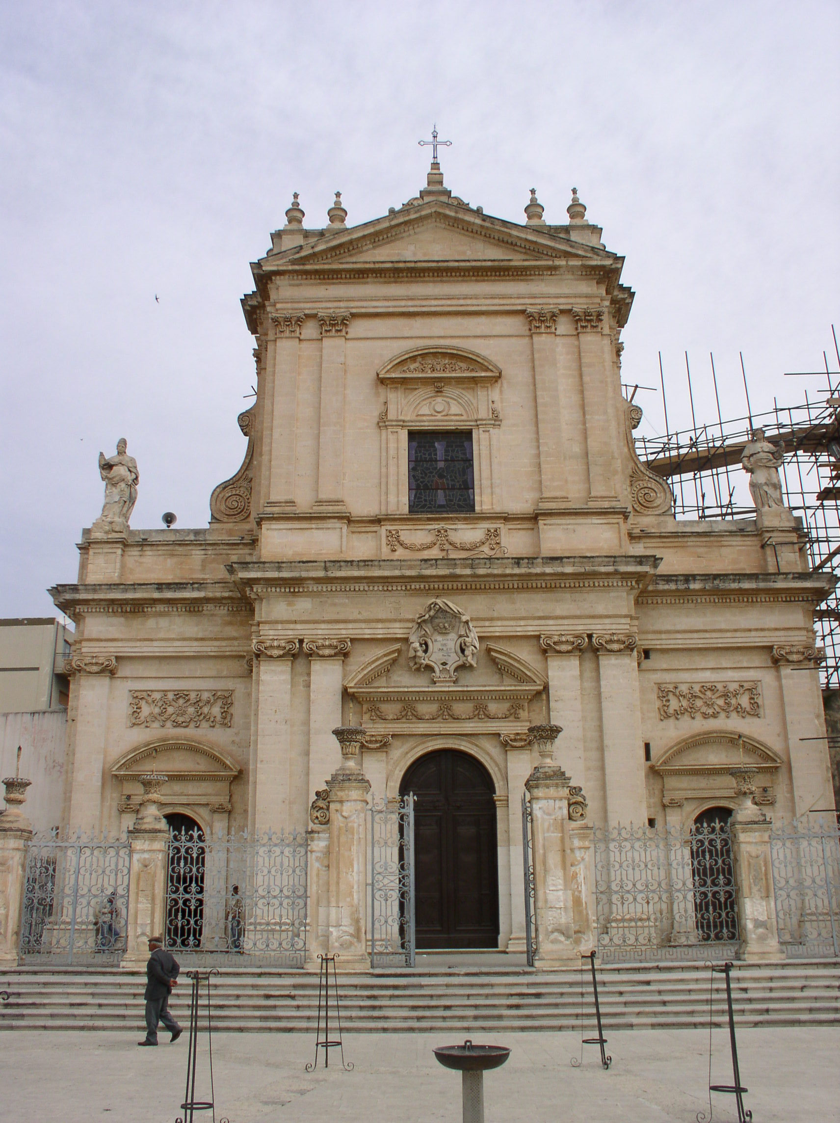 Author: Giuseppe Melfi